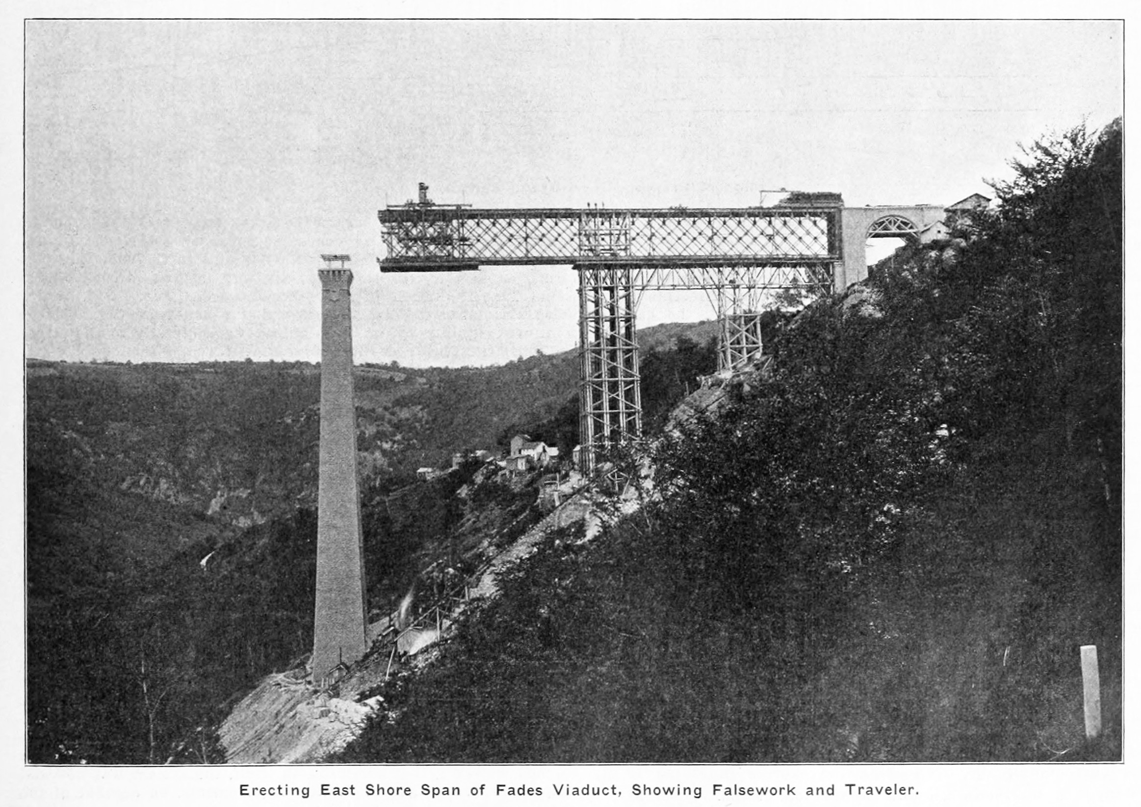 Photo of the east shore span of the Fades Viaduct under construction. From Ommelange, E. (1905). "The Fades Viaduct". The Railroad Gazette 34 (21): 484-486.